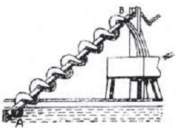 It is a machine historically used for transferring water from a low-lying body of water into irrigation ditches.